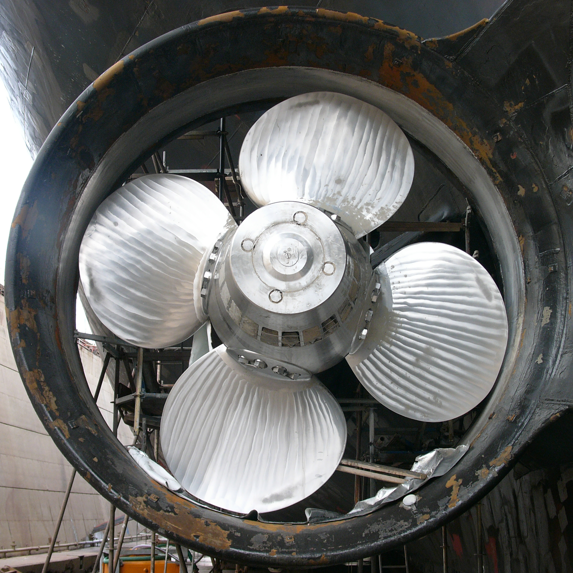 Photo from the German research vessel POLARSTERN port propeller